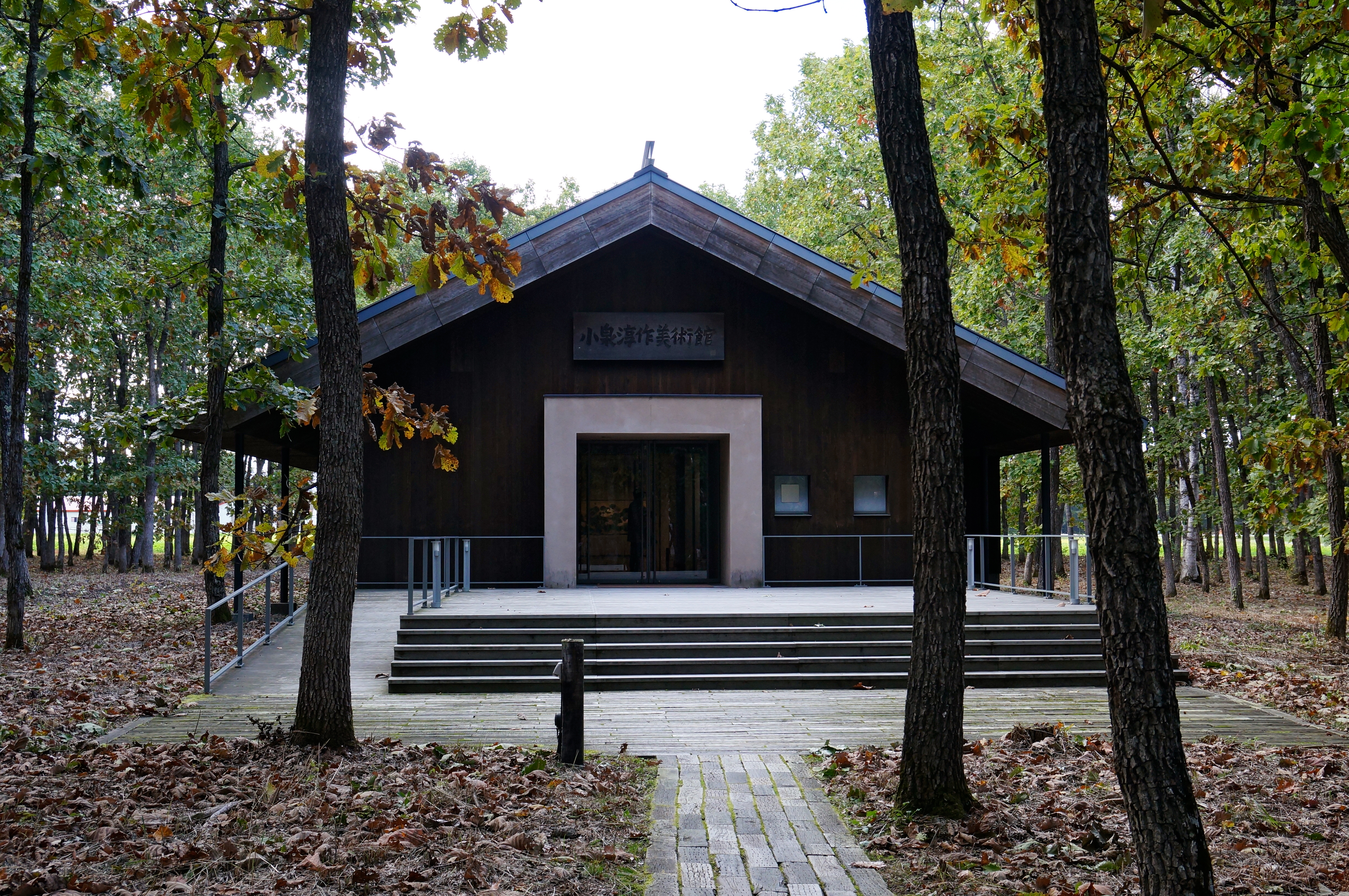 Nakasatsunai Art Village in Nakasatsunai, Hokkaido prefecture, Japan.